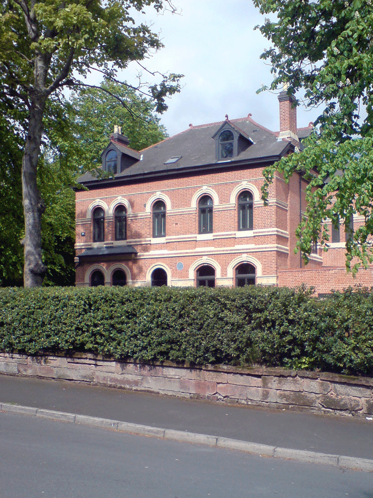 8 Ampton Road, Birmingham - Augurio Perera's house in Edgbaston, upon the croquet lawn of which he and Harry Gem invented the modern game of lawn tennis between 1859 and 1865. A blue plaque commemorating the event can be seen on the front of the building.